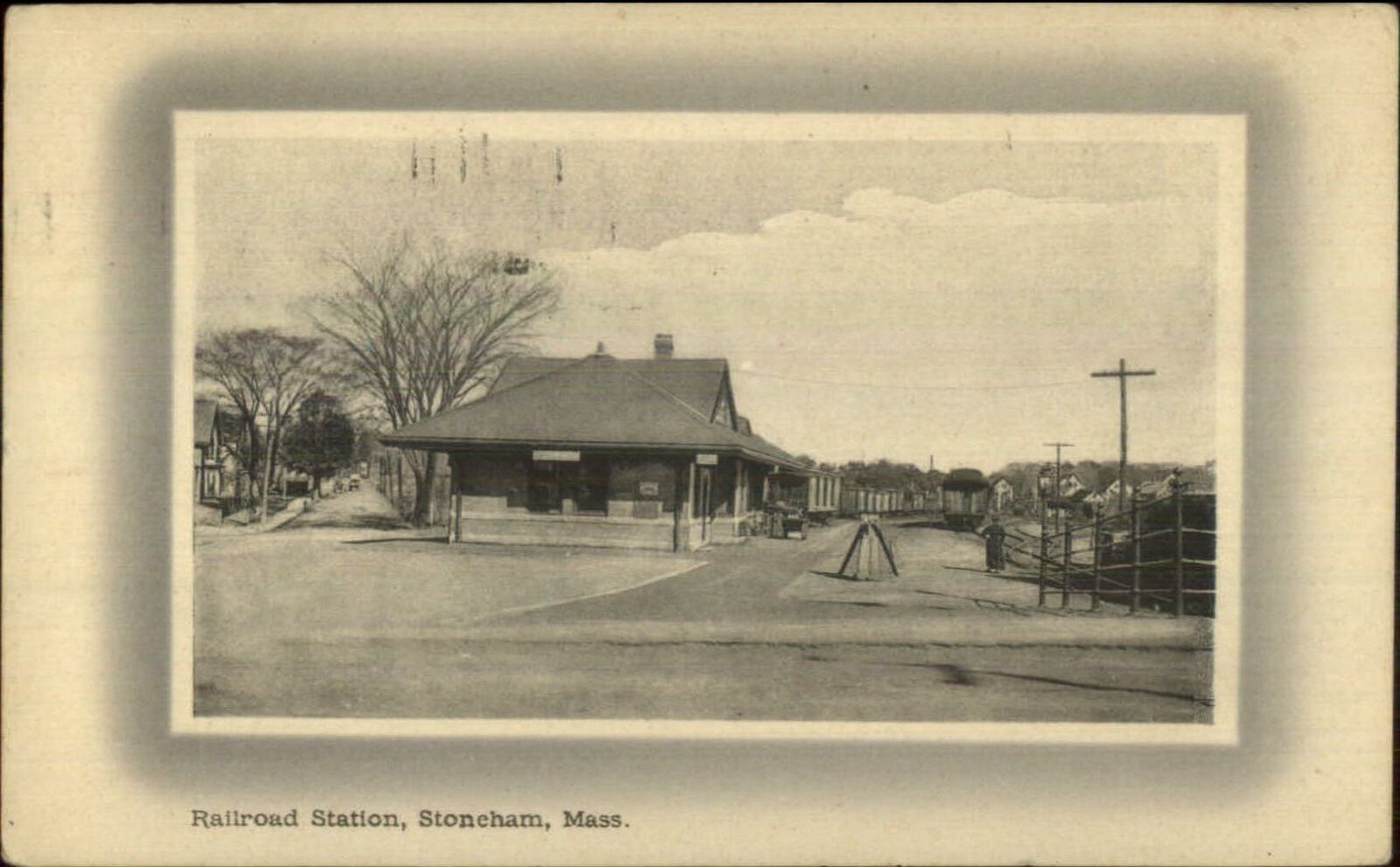 Early divided back postcard of Stoneham station, postmarked 1913